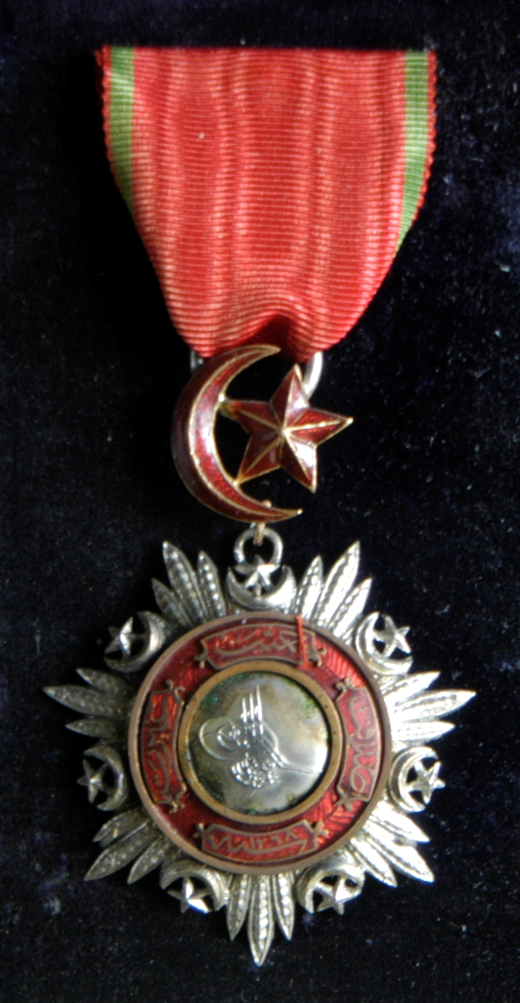 Photo (by me, R. de SalisRodolph (talk) 18:36, 29 August 2014 (UTC)) of the Order of the Medjidie awarded to Major Rodolph De Salis of the 8th Hussars. Other information Medal was struck in 1850s; 160 years ago.